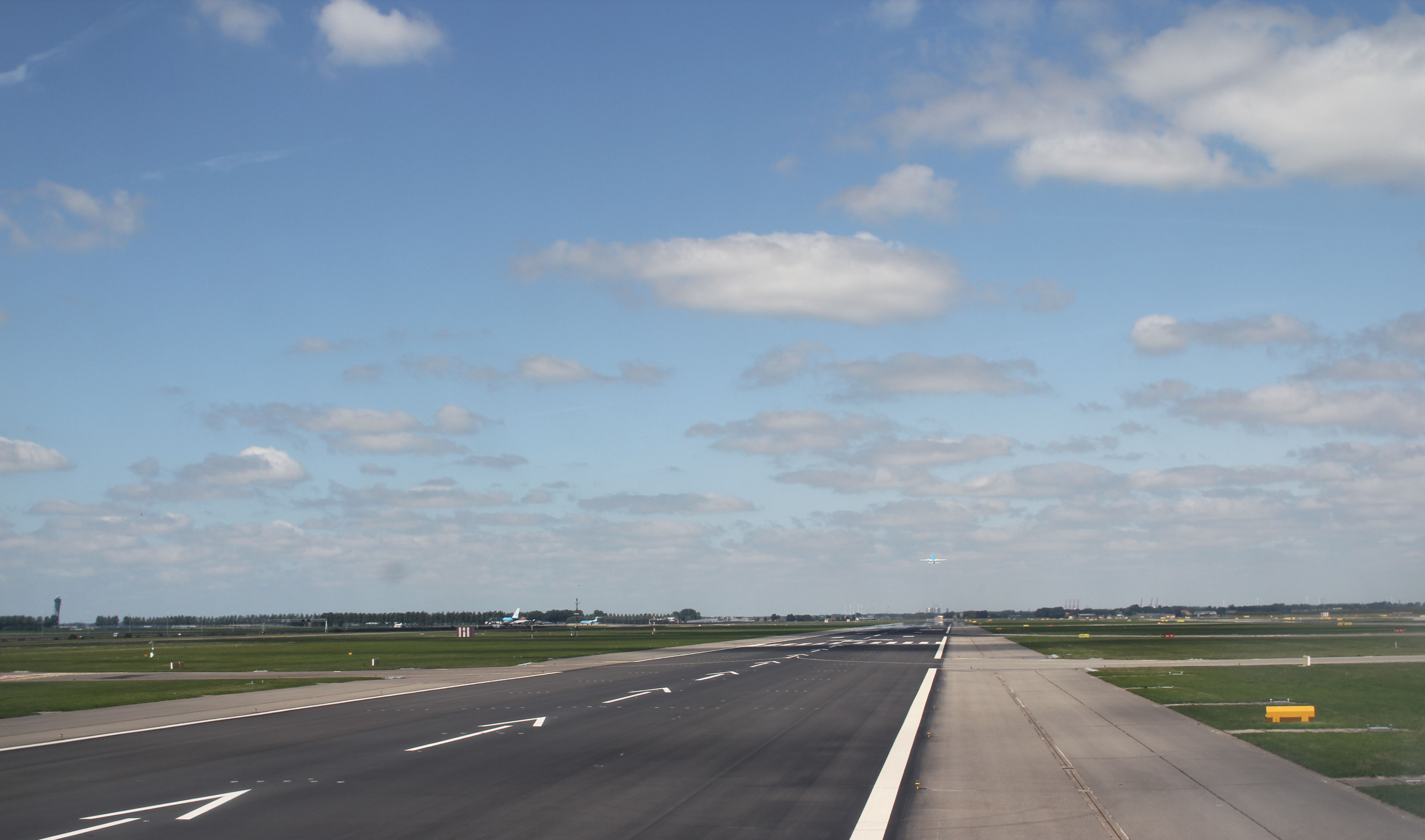 This is runway 18C - 36C at Schiphol Airport (IATA: AMS ICAO: EHAM), locally known as the Zwanenburgbaan, seen from the southeast looking to the northeast.